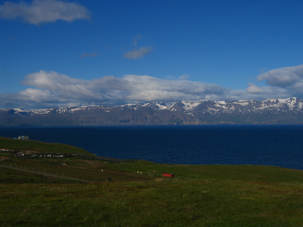 Taken by Gestur Pálsson in July 2005